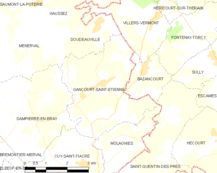 Map of French municipality Gancourt-Saint-Étienne